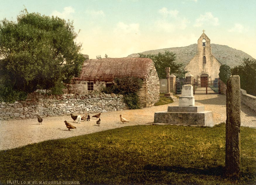 Ramsey St. Maughold Church Isle of Man England